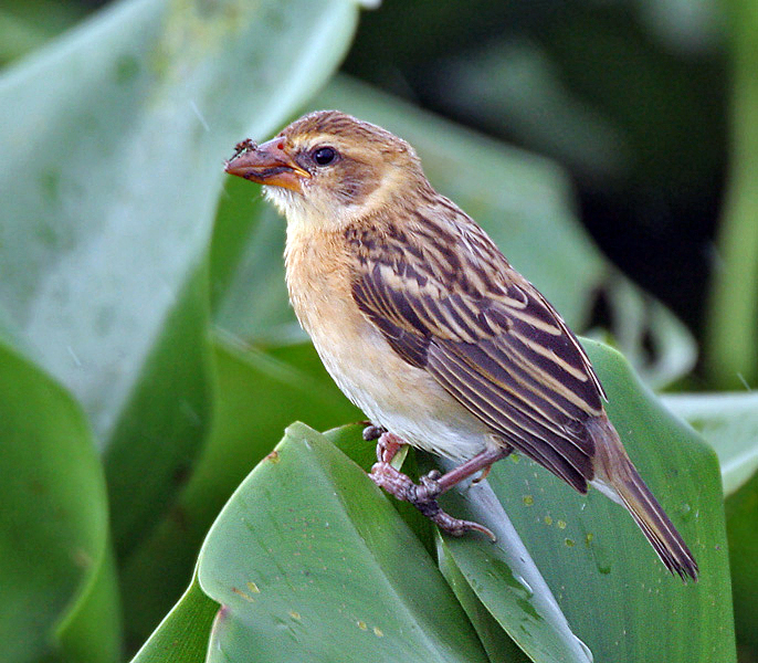 Baya Weaver (Ploceus philippinus) in Kolkata, West Bengal, India.